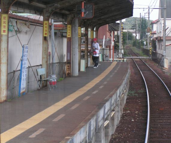 Minakuchi_ishibashi_station Oumi_railway Shiga.pref. Japan